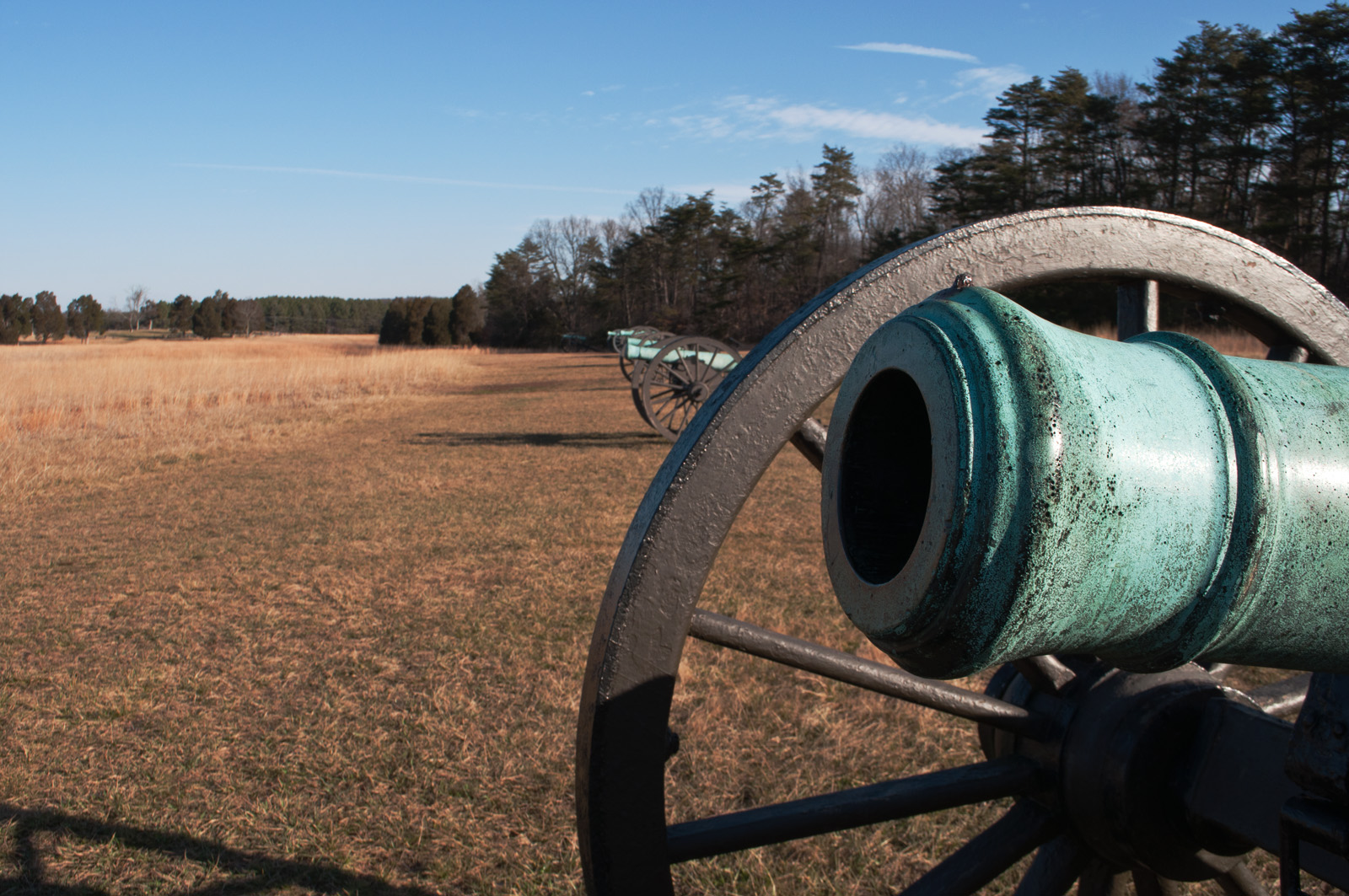 Manassas National Battlefield Park is the site of two key early Civil War battles, the First Battle of Bull Run of July 1861 and the Second Battle of Bull Run of August 1862. The two battles, which were costly to both sides and ended with Confederate wins, demonstrated that the Civil War was going to be a very long, bloody affair, with no quick victory in sight. I am at the position of the Confederate artillery for the First Battle. Here, General Stonewall Jackson earned his nickname via his performance in the battle. The United States of America (the North) eventually gained the upper hand and won the war, due to its superior industrial capacity, transportation network, and naval blockade of the Confederacy. The Confederates, who had started the war in order to break away from the USA, form a new country with legal slavery, and obtain the recognition of European powers, eventually faltered, though bitterness over the slavery era and the Civil War loss makes up the political atmosphere and the racial dynamics of the South even today (including right here in Virginia).